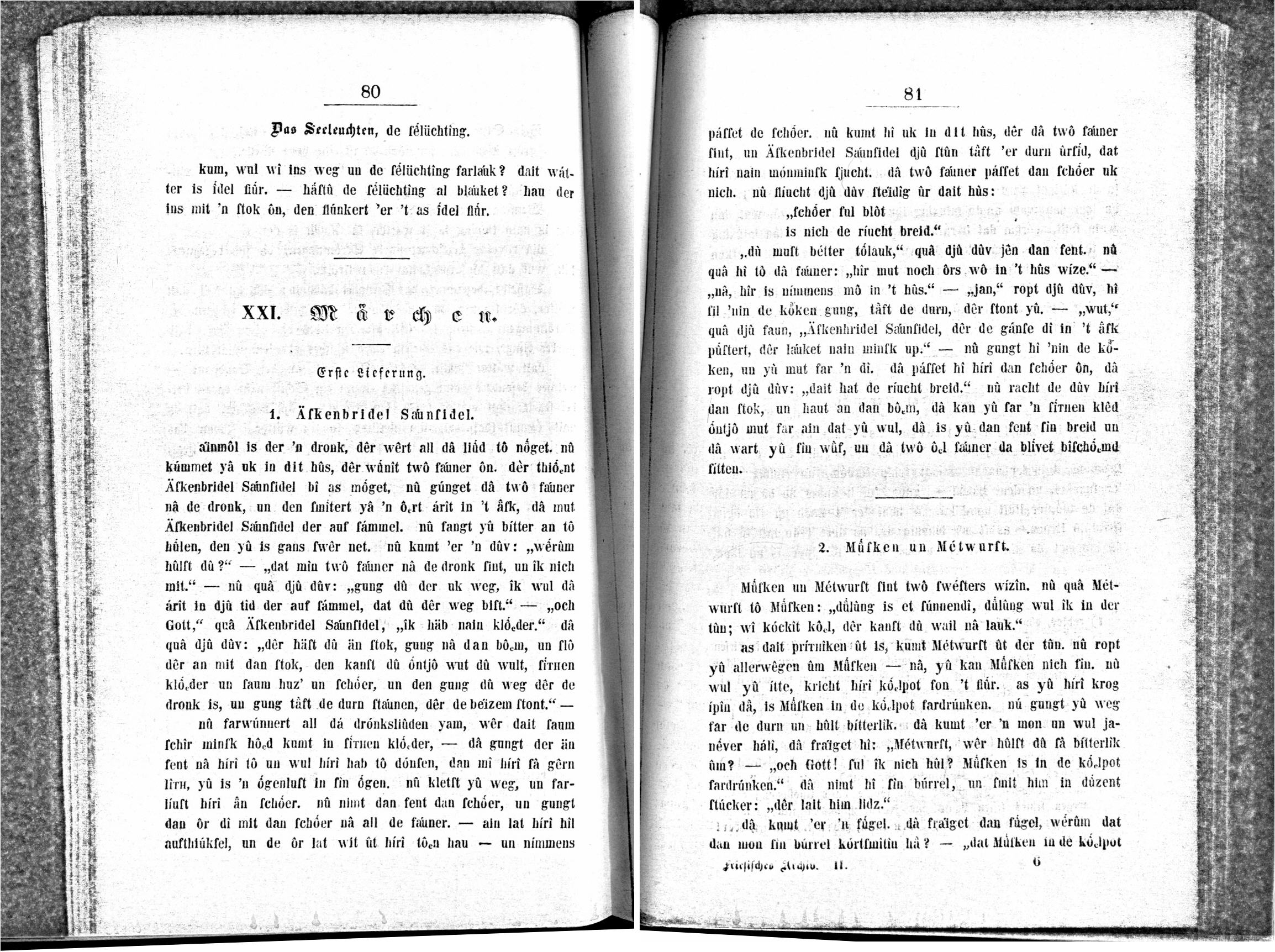 Story "Äskenbriddel Saunsiddel", Frisian of Wangerooge.